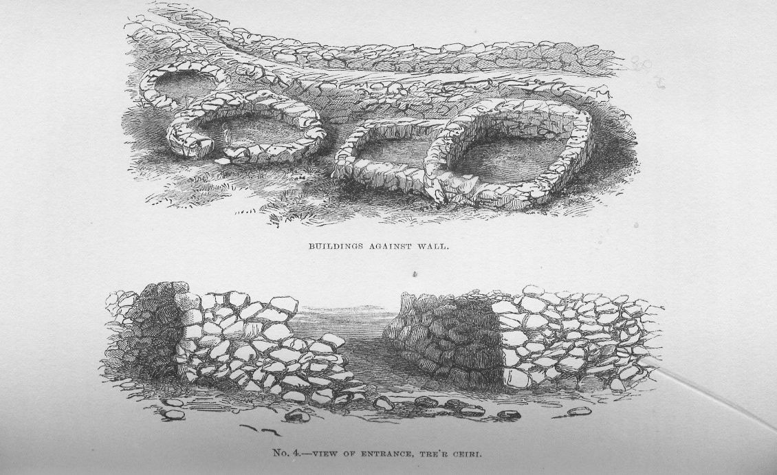 Tre'r Ceiri, Hut circles, Arch Camb Vol 2 1872 pg 79